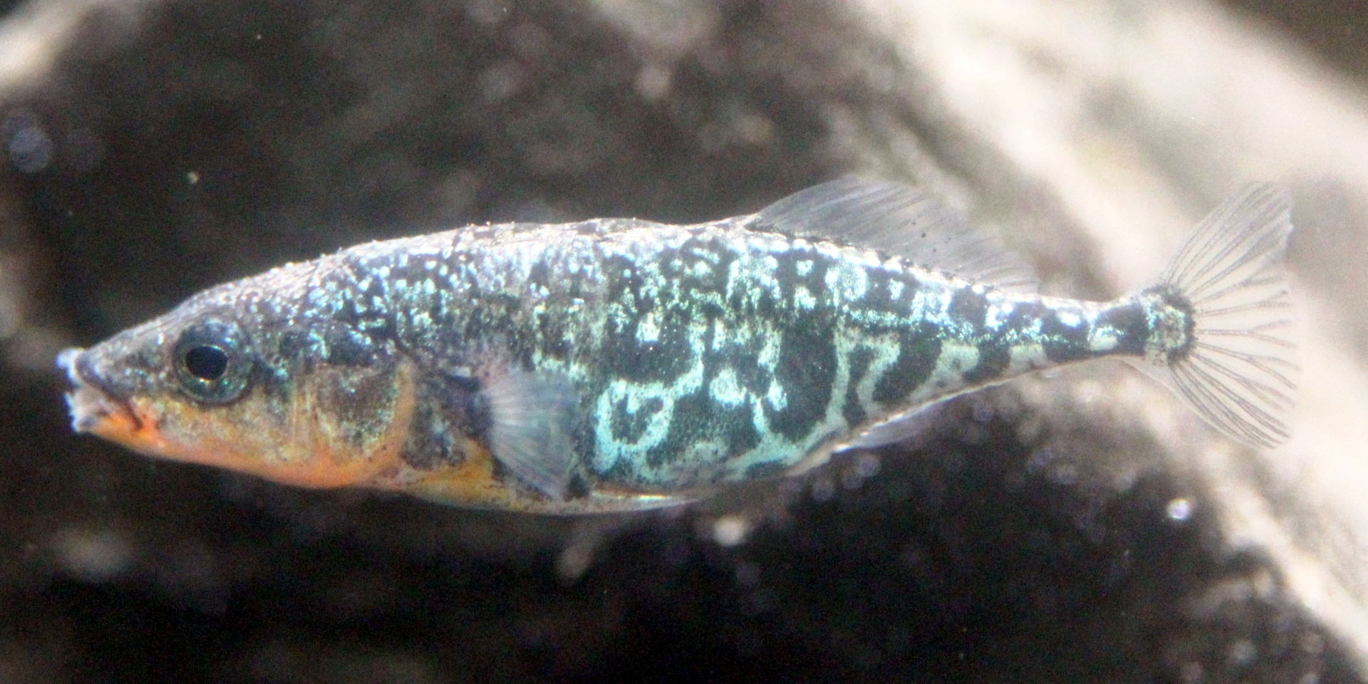 Gasterosteus microcephalus (Smallhead stickleback), male was swimming in Japan.